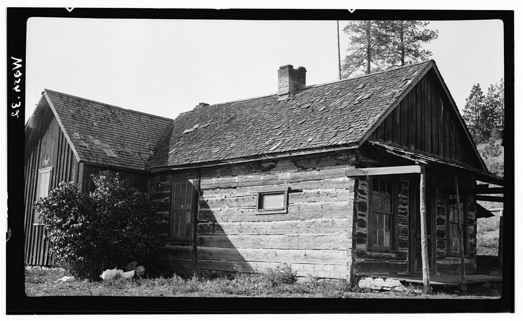 John Holst Homestead outside of Colville, Washington. The building dates from 1860. Loopholes in the side of the building indicate it may have been used as a blockhouse.